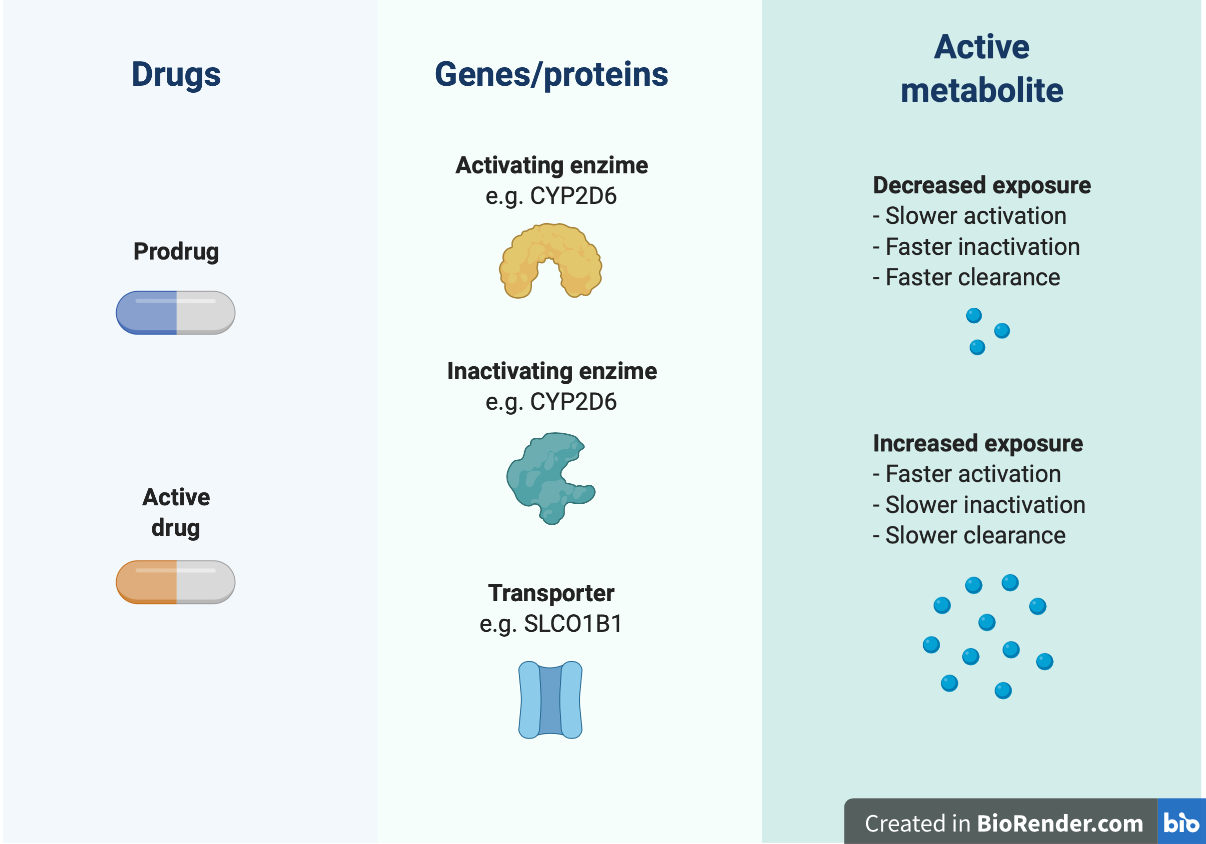 The components of the pharmacodynamics of drug exposure. Exposure is dependant on whether the drug is a prodrug or an active drug. Also, the rate-limiting gene can be an activating or inactivating enzyme or a transporter that affects the intake or secretion of the drug.